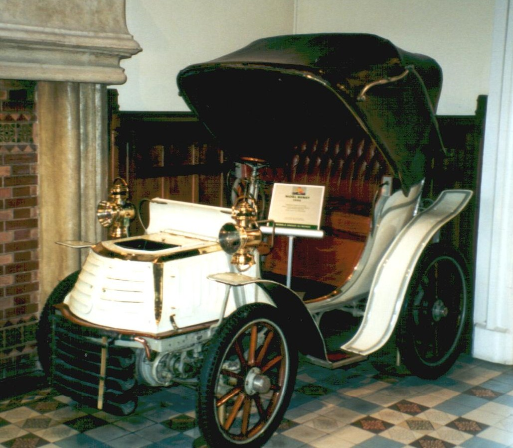 Noël Bénet 1900 (Country of origin: France)